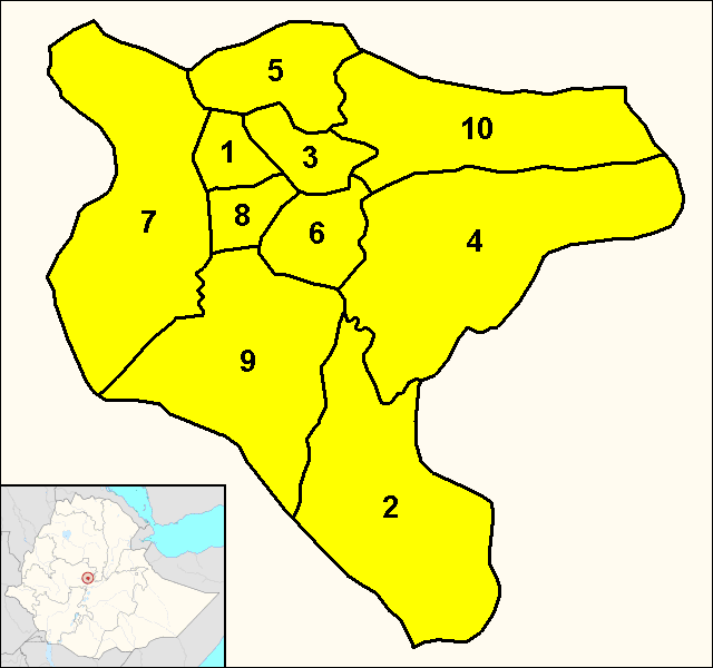 Map of the 10 districts (subcities) of Addis Ababa. 1: Addis Ketema - 2: Akaky Kaliti - 3: Arada - 4: Bole - 5: Gullele - 6: Kirkos - 7: Kolfe Keranio - 8: Lideta - 9: Nifas Silk-Lafto - 10: Yeka.